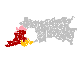 Pajottenland + Zennevallei, Flemish Brabant